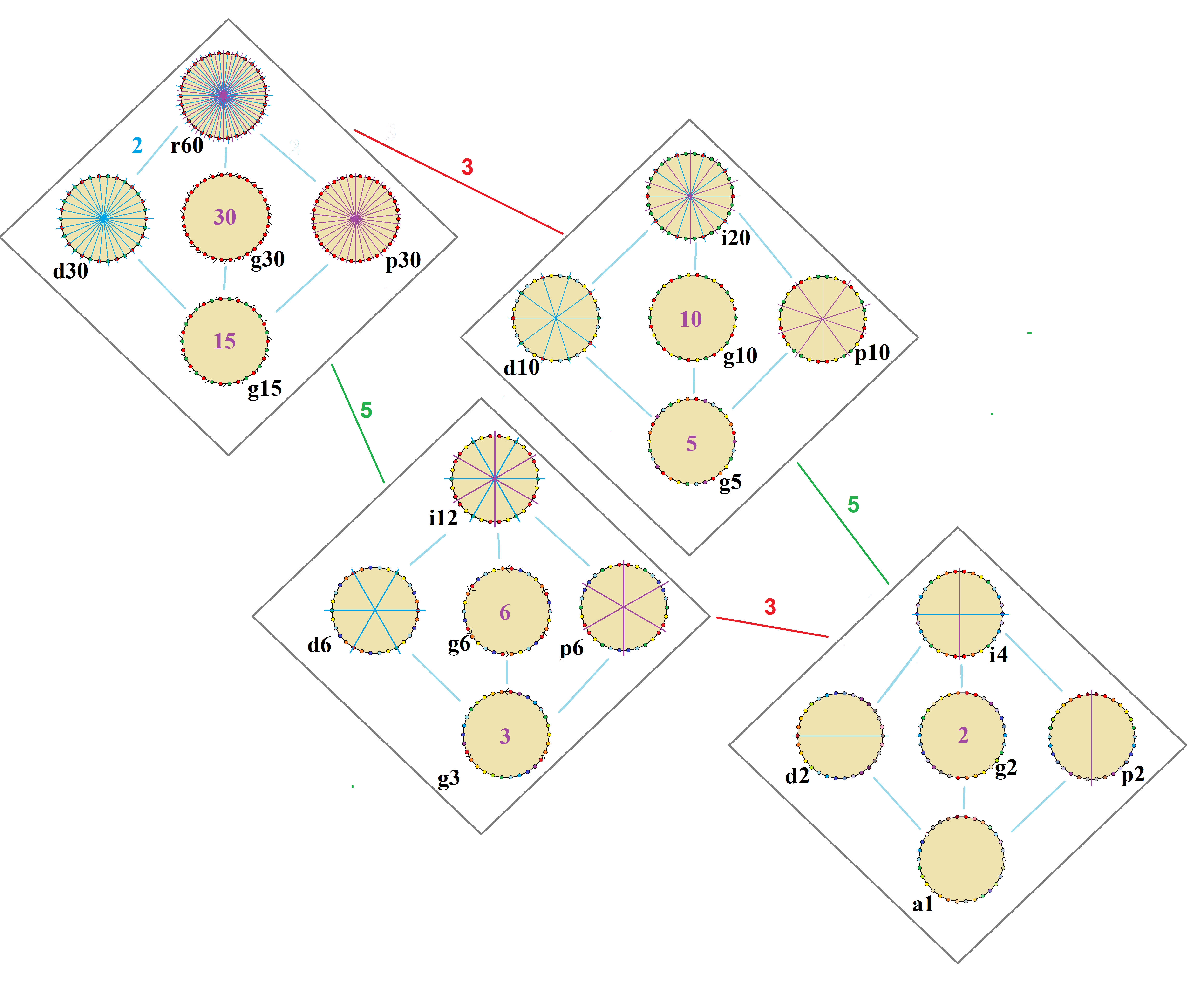 triacontagon symmetry. John Conway labels these lower symmetries with a letter and order of the symmetry follows the letter.[2] He gives d (diagonal) with mirror lines through vertices, p with mirror lines through edges (perpendicular), i with mirror lines through both vertices and edges, and g for rotational symmetry. a1 labels no symmetry.